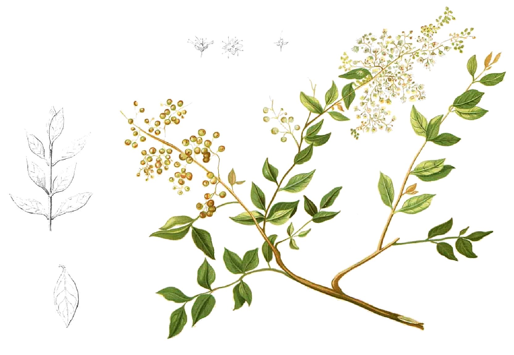 Plate from book